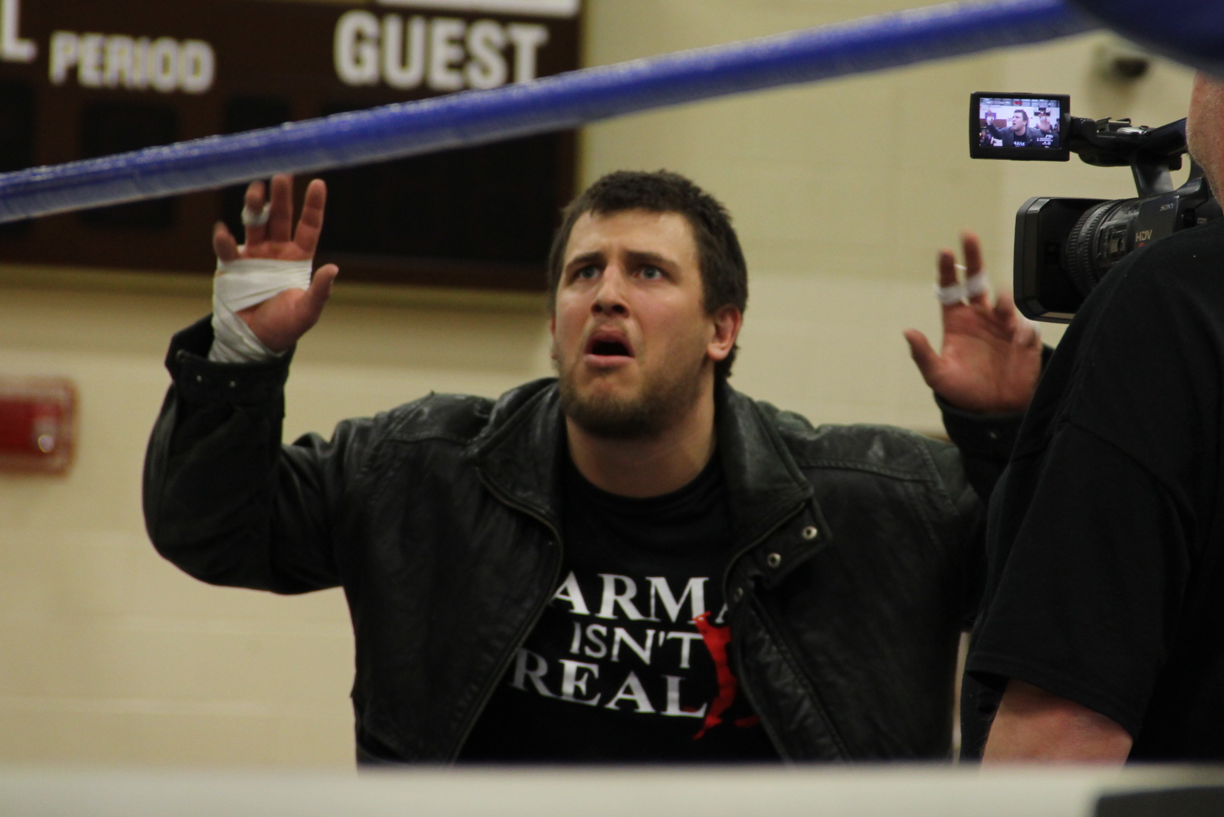 Professional wrestler Tim Donst at a Wrestling is Art event.